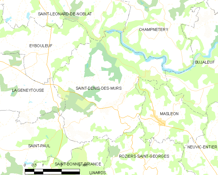 Map of French municipality Saint-Denis-des-Murs